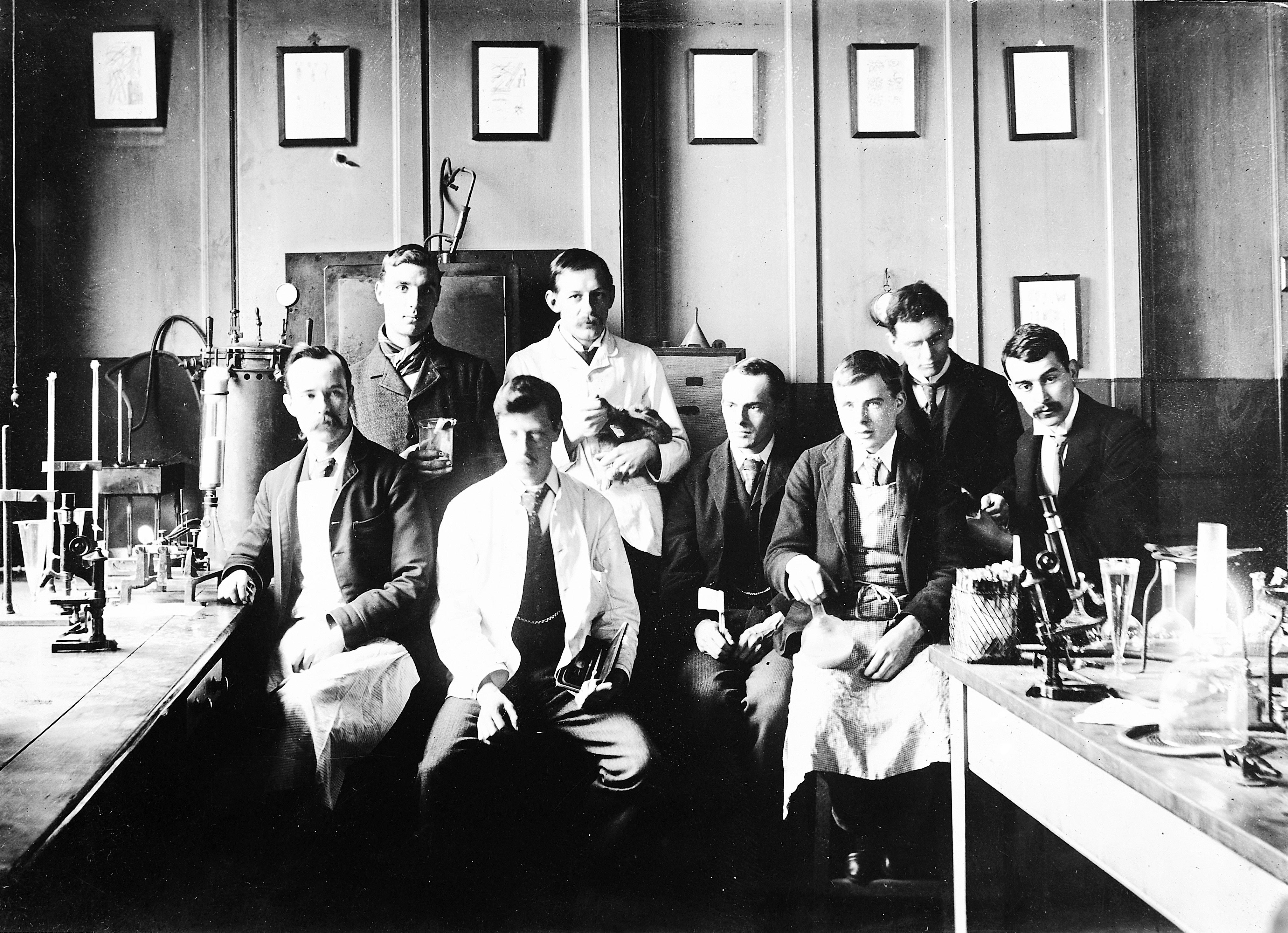 St. Bartholomew's Hospital, 1896. A group in a laboratory. Seated front-left Earnest Shaw, then T.S.V. Strangeways; in white coat standing A.A. Kanthack, J.W.W. Stephens. Wellcome Images Keywords: Institutions